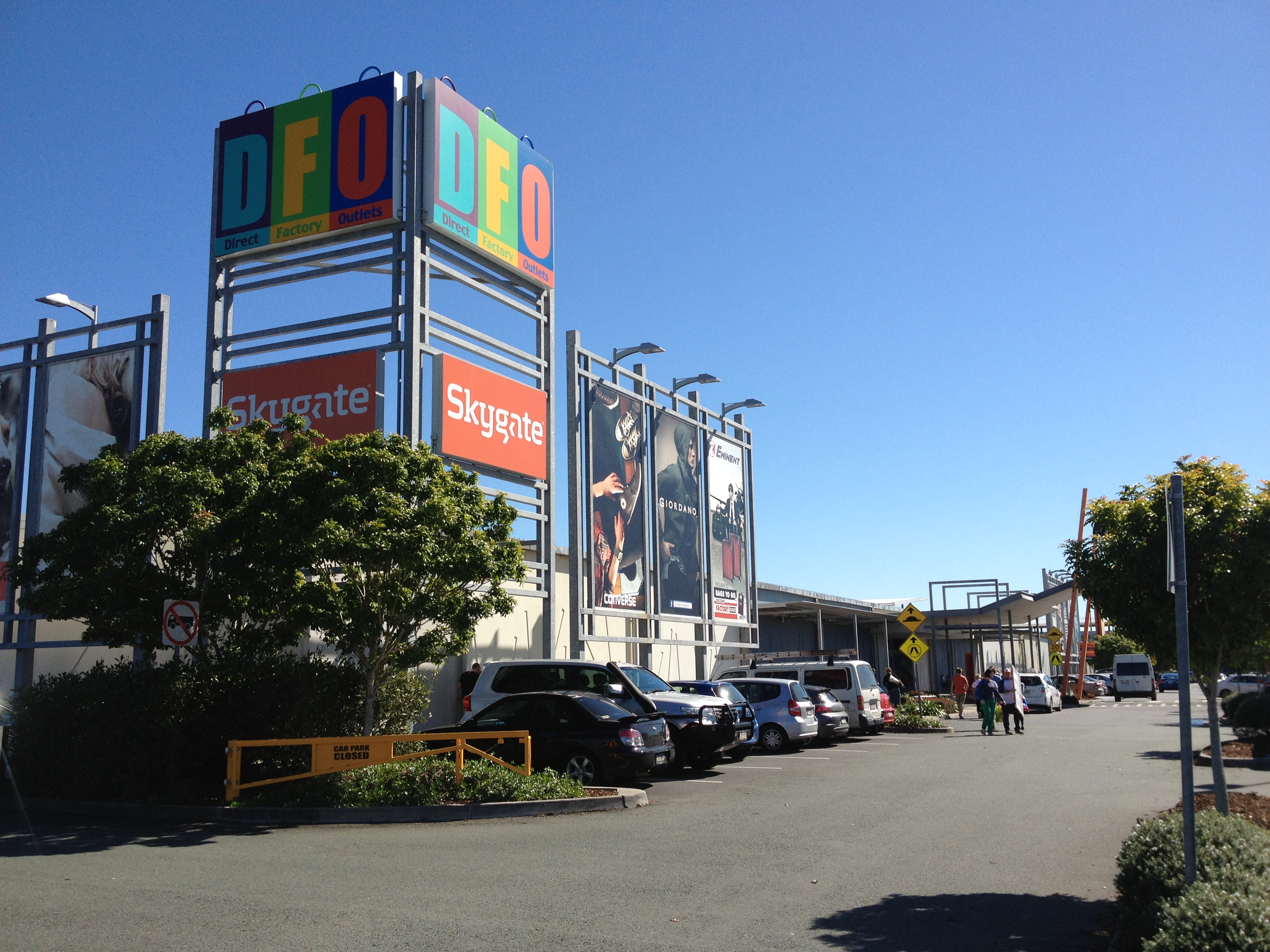 DFO in Brisbane Airport, Queensland